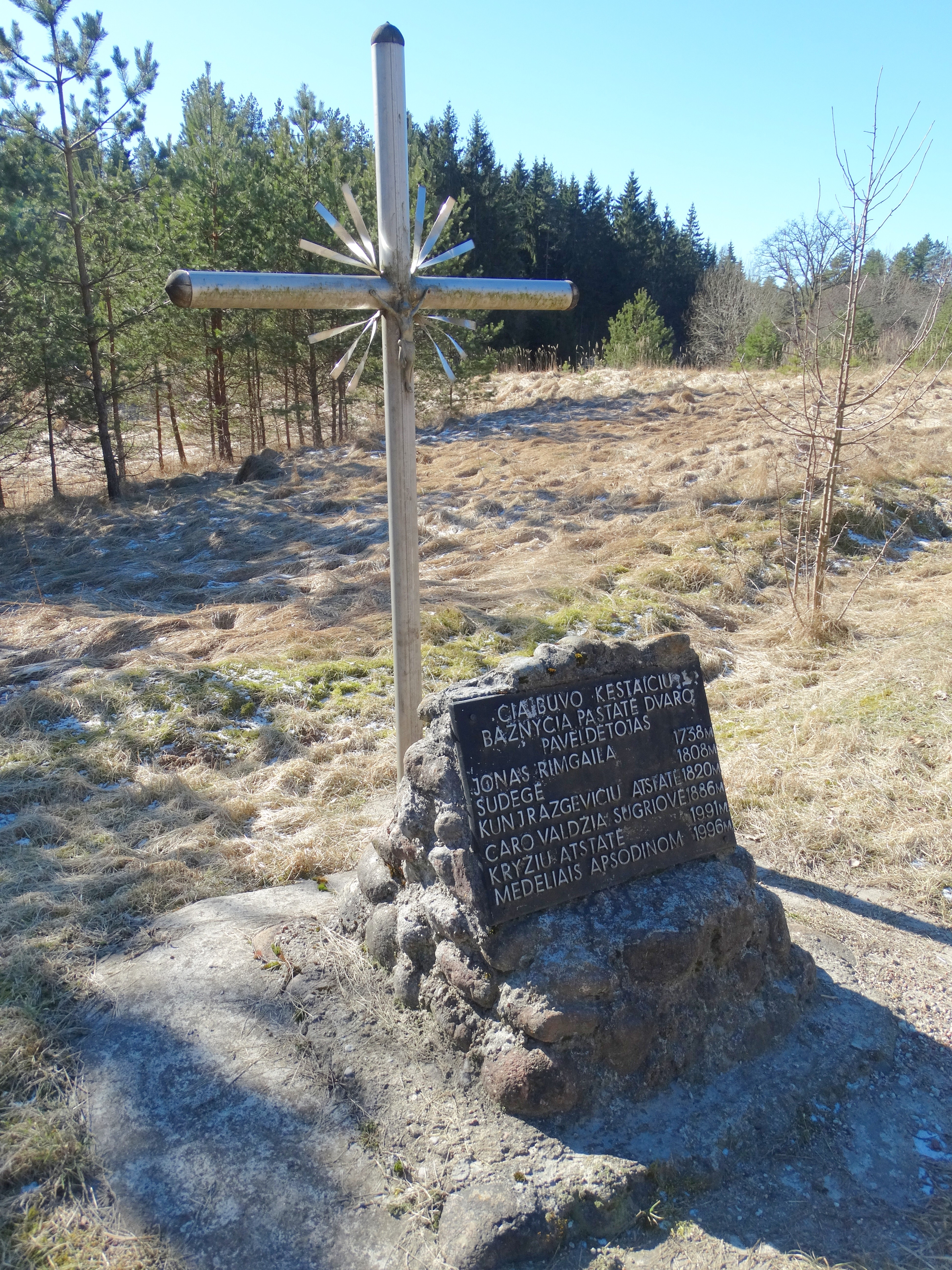 Kęstaičiai, place of the former church, Telšiai District, Lithuania